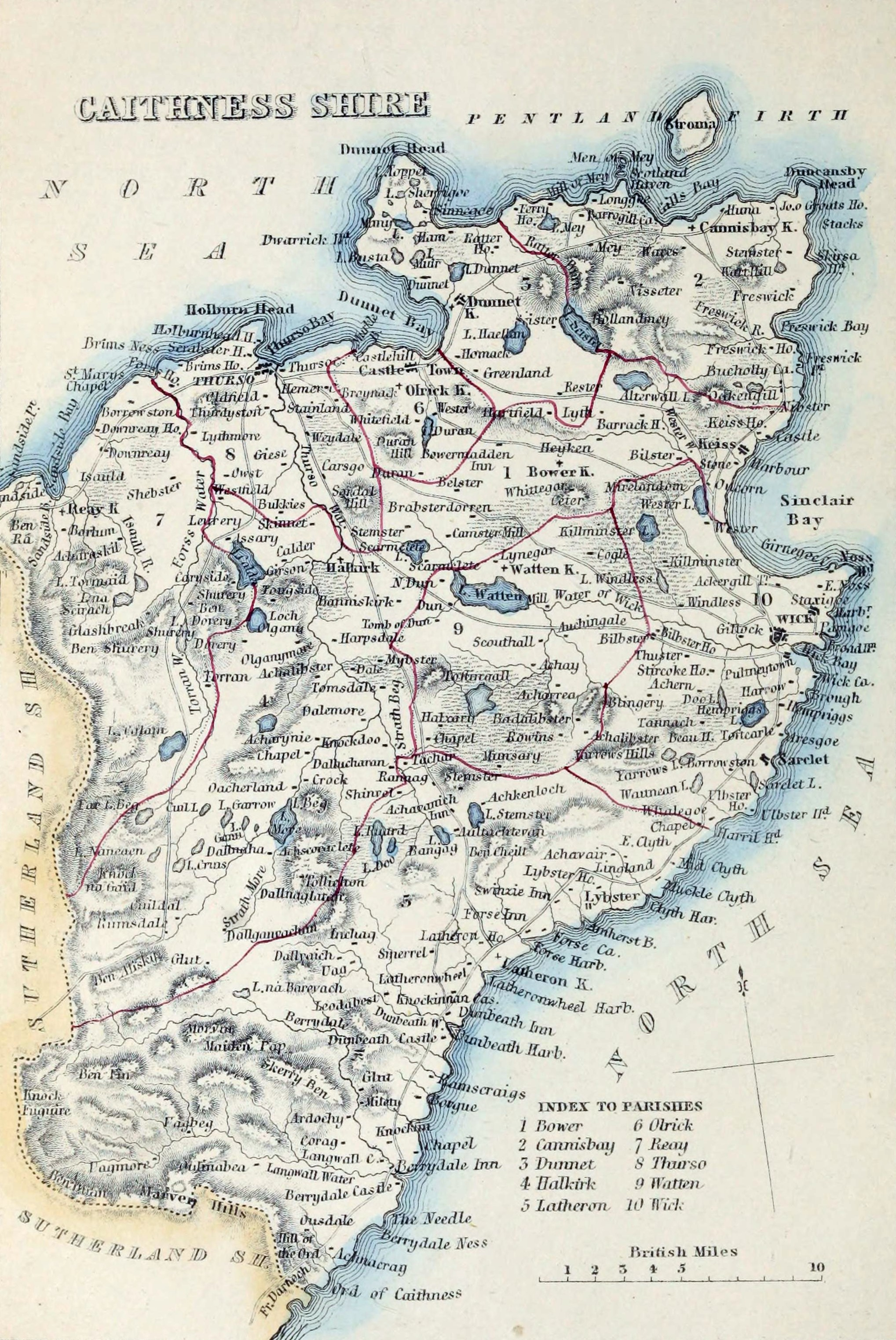 CAITHNESS SHIRE Civil Parish map. The Imperial gazetteer of Scotland. Vol.I. by Rev. John Marius Wilson.